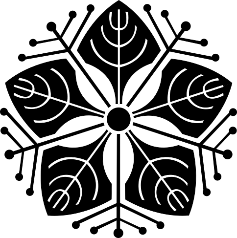 Japanese crest, Itadori